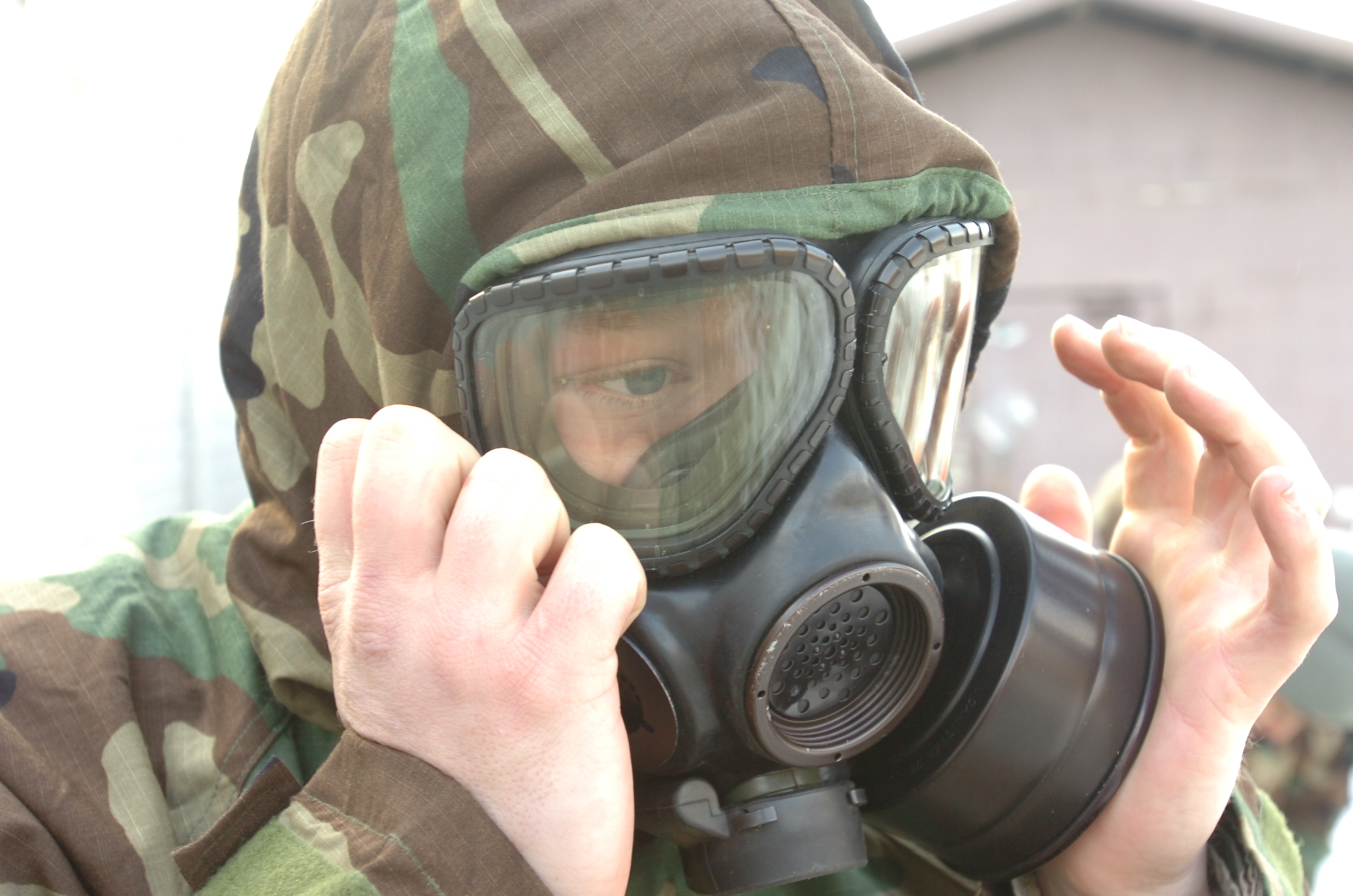 U.S. Army Sgt. Joseph Ethier, an ammunition specialist assigned to the 70th Brigade Support Battalion, 210th Fires Brigade, 2nd Infantry Division, demonstrates how to properly clear and seal a protective mask during chemical, biological, radiological, and nuclear defense training on Camp Casey in Dongducheon, South Korea, Feb. 21, 2013. (U.S. Army photo by Staff Sgt. Carlos R. Davis/Released)